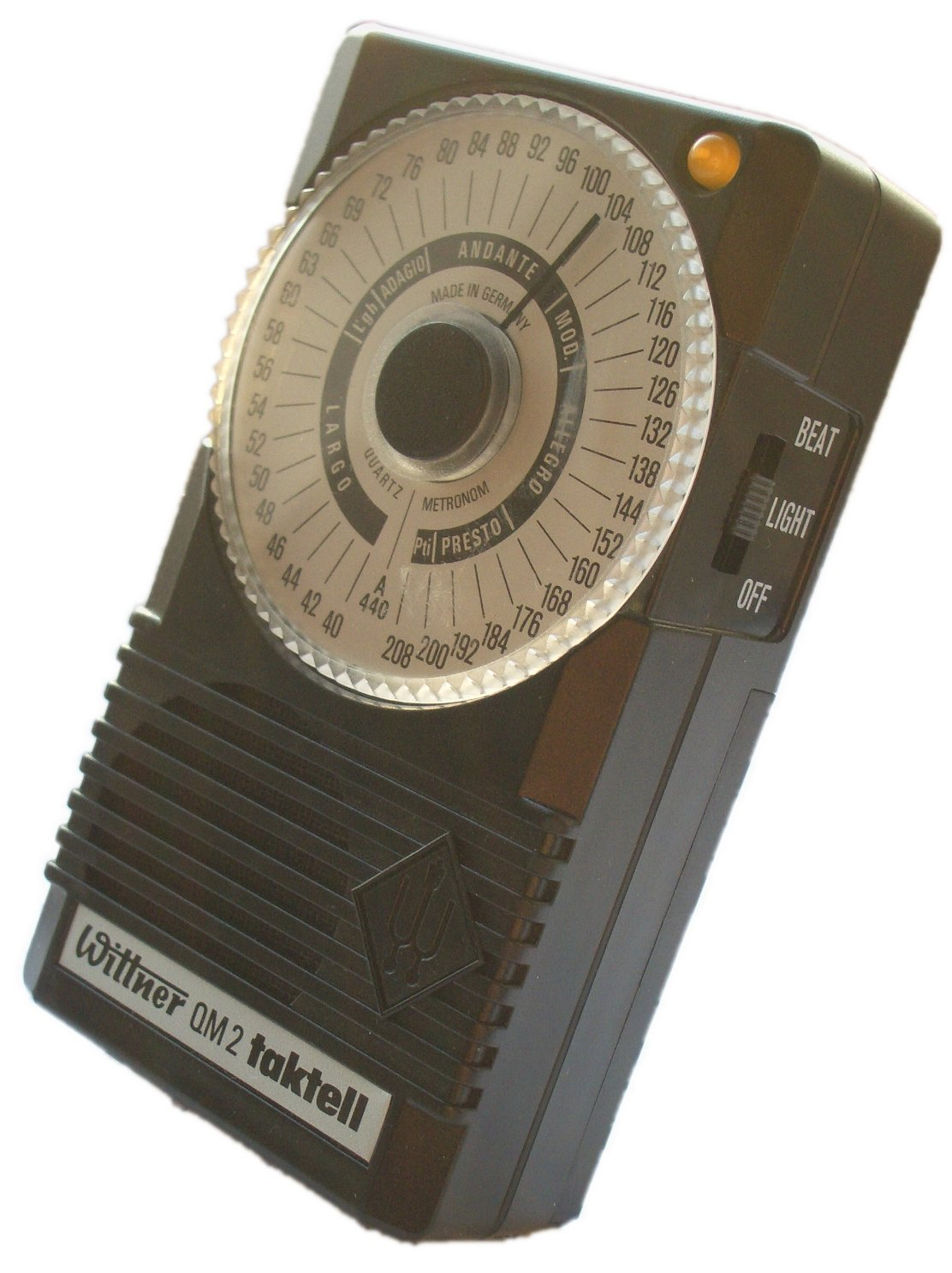 Electronic Metronome with analog operation